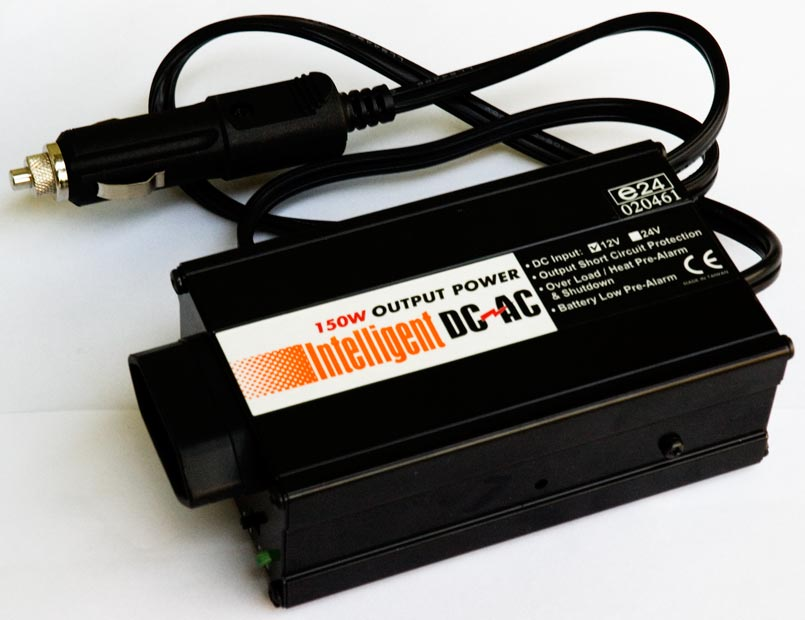 Automobile voltage converter 12V DC - 230V AC, 150W